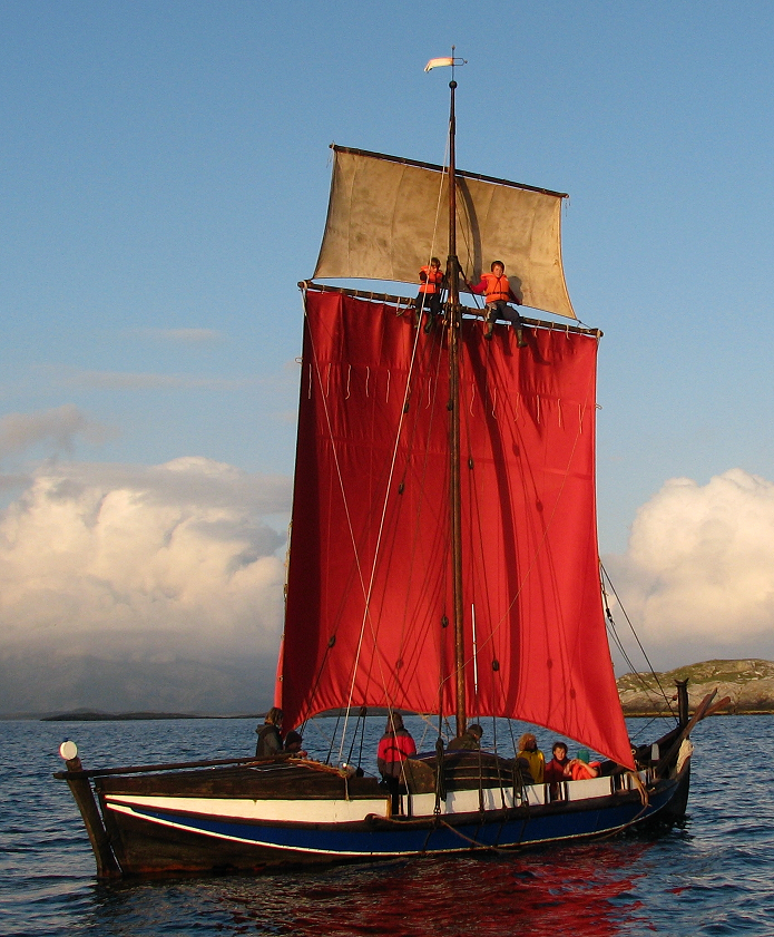 Norwegian traditional boat type Åfjordsbåt of size Fembøring sailing near Kvitvær in municipality Lurøy, county Nordland, Norway.